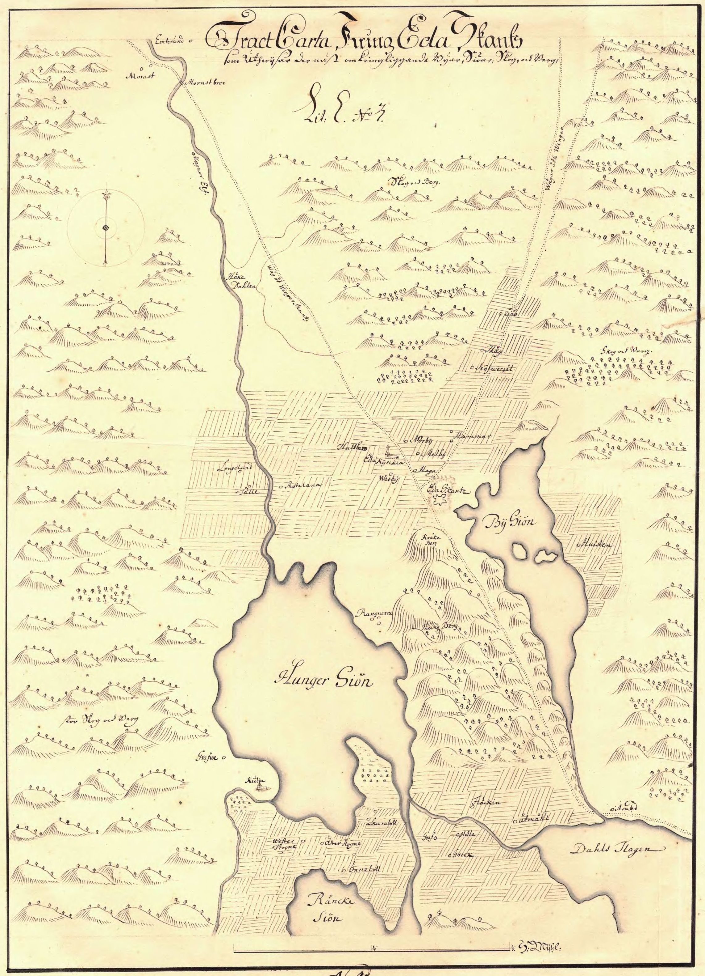 Map showing the surroundings of Eda sconce, Värmland, Sweden, and the lakes Bysjön and Hugn.